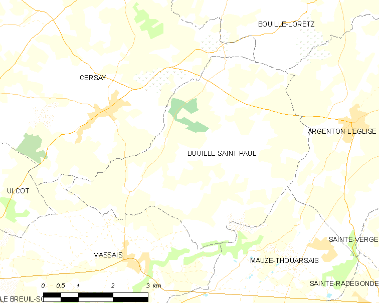 Map of French municipality Bouillé-Saint-Paul